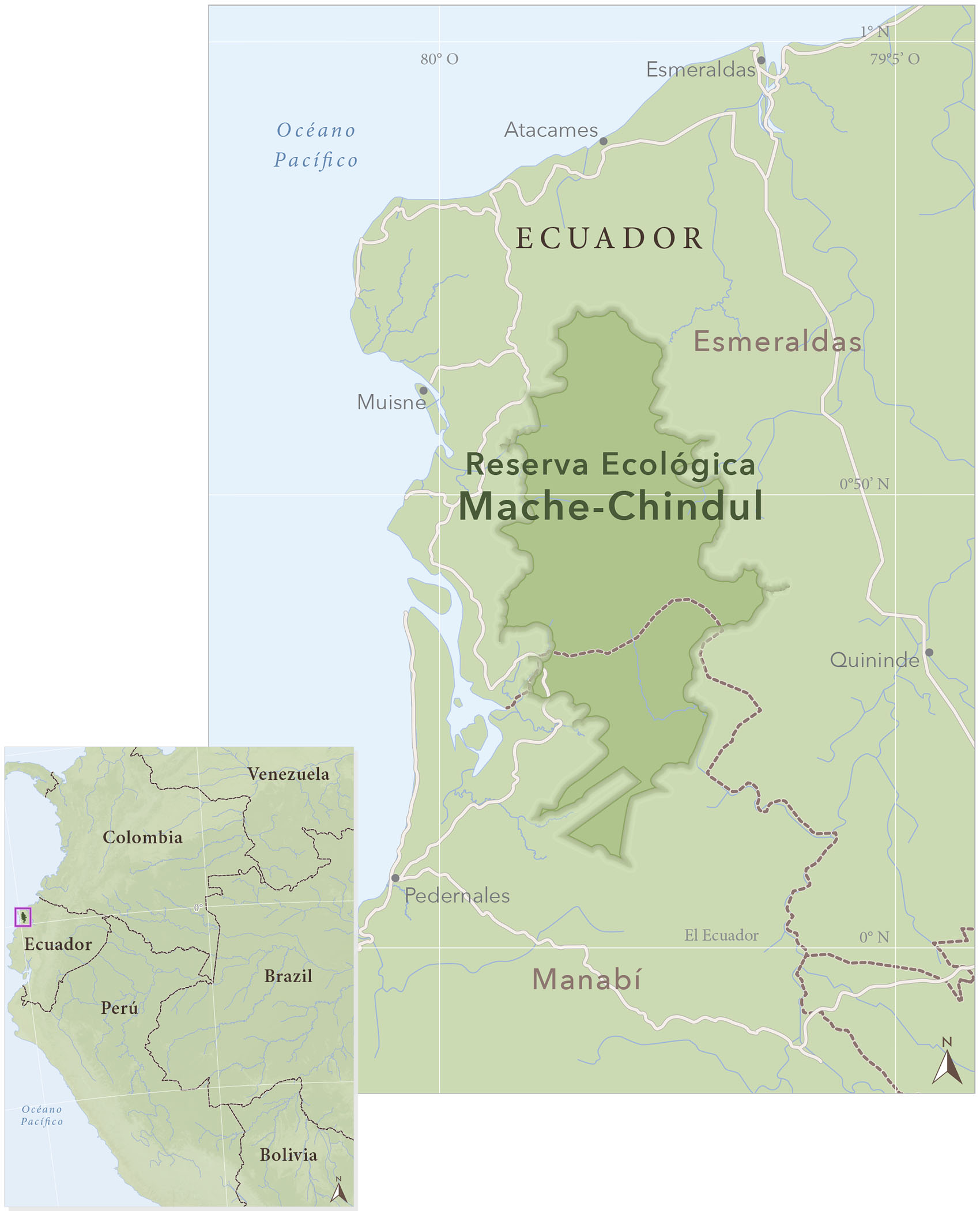 mapa de Laura Daly hecho con datos de OpenStreetMap, Natural Earth, utilizando QGIS, Adobe Illustrator WGS 84/UTM Zone 17 South (EPSG: 32717)